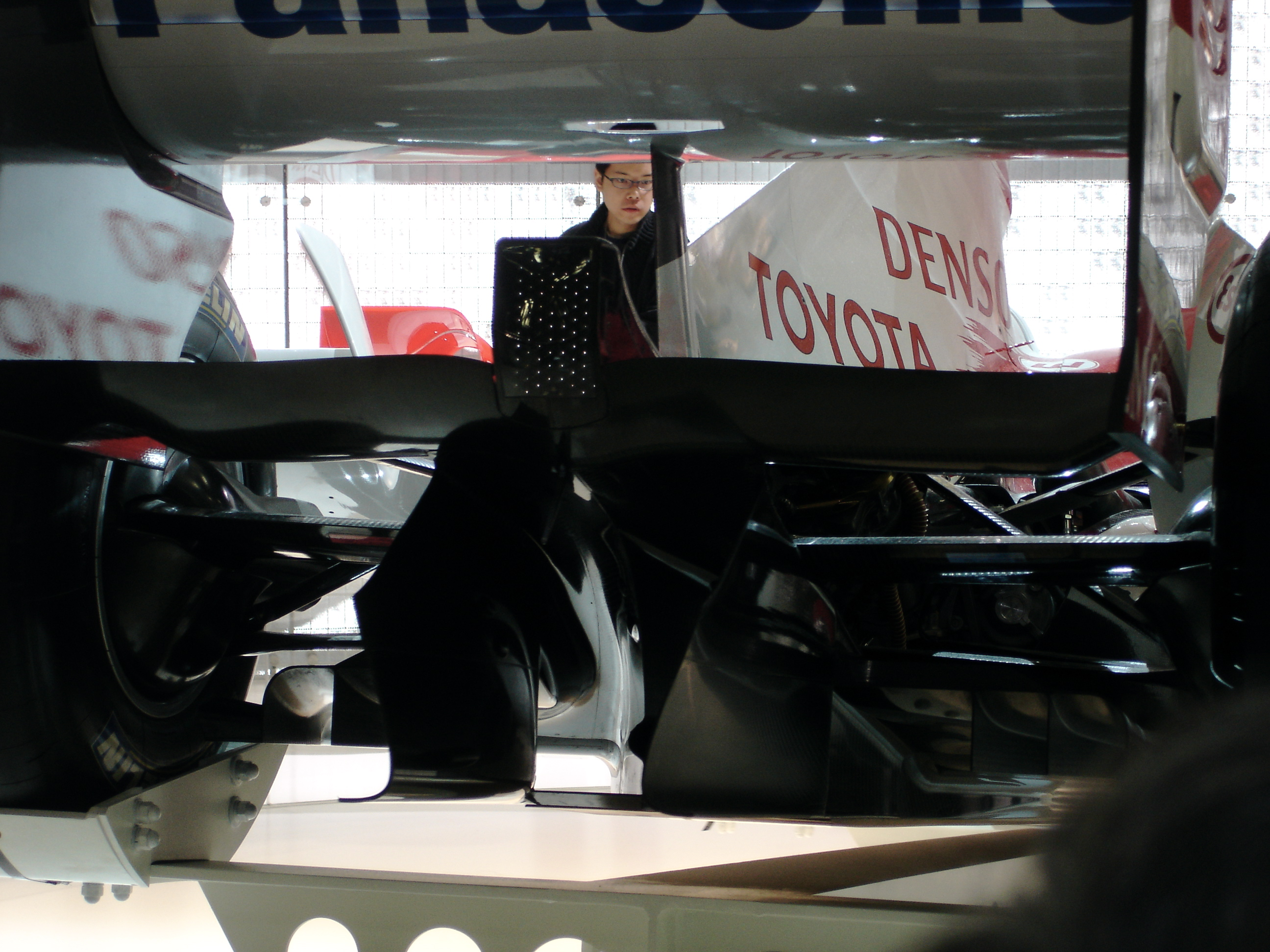 Toyota diffuser